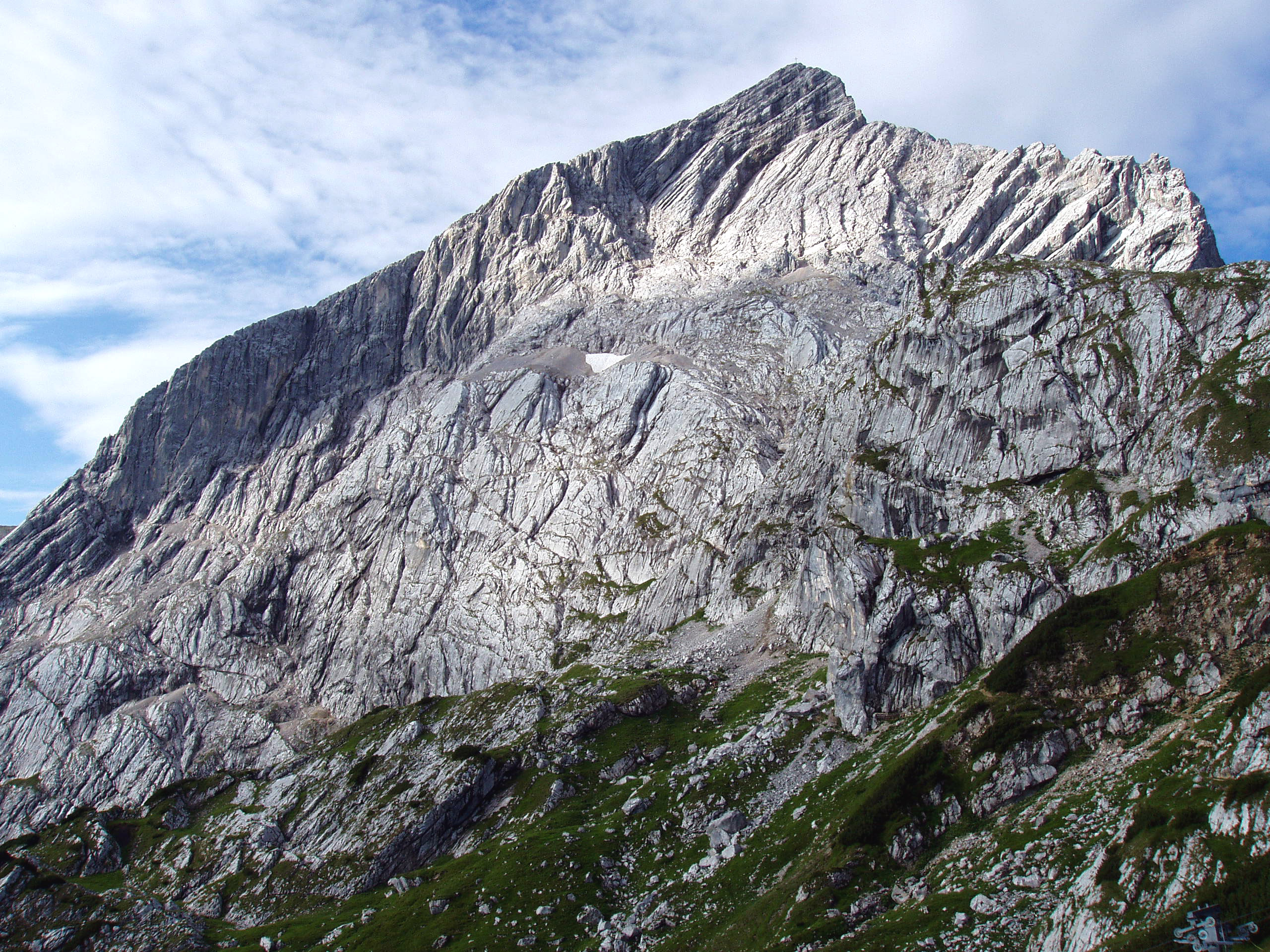 Alpspitze (2.628 m) in the mountain range called Wetterstein, part of the Bavarian Alps south of Garmisch-Partenkirchen, Germany. Photo was taken from Osterfelderkopf.